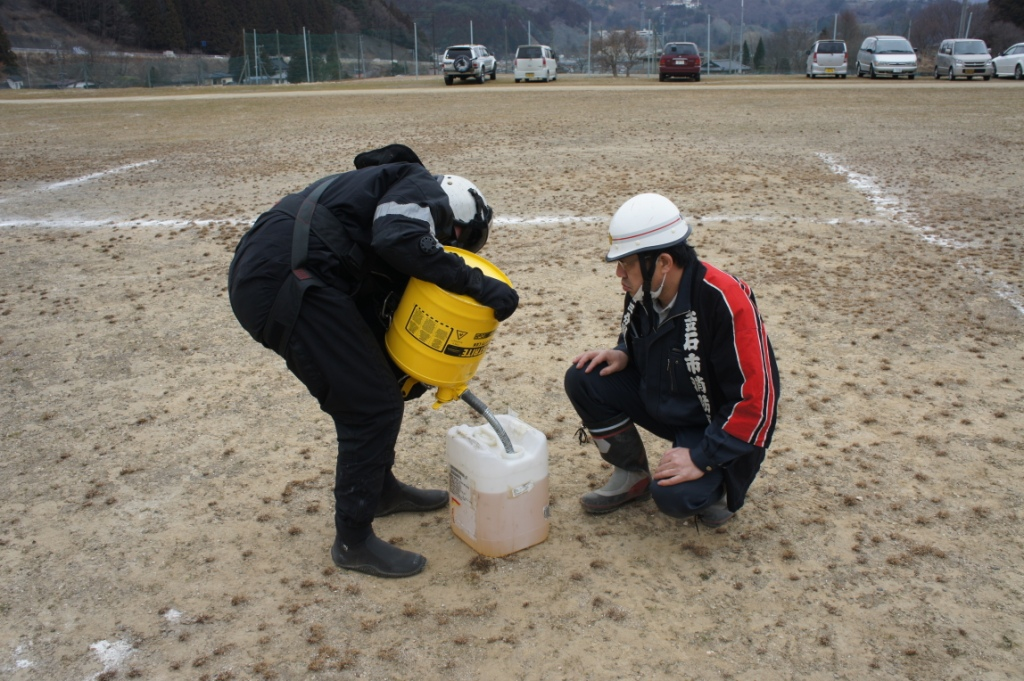 SENDAI, Japan (March 15, 2011) A naval air crewman assigned to Helicopter Anti-submarine Squadron Light (HSL) 43 embarked aboard the guided-missile destroyer USS Preble (DDG 88) provides fuel to a Japanese man for his kerosene heater. Preble is conducting humanitarian assistance operations in support of Operation Tomodachi. (U.S. Navy photo by Naval Air Crewman 3rd Class Kevin MacDonald/Released)